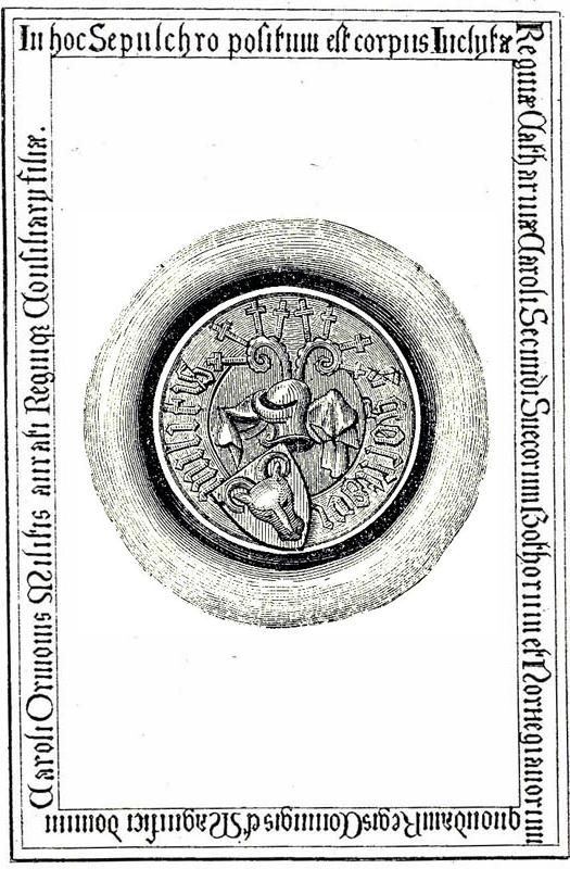 Seal of Gumsehuvud Clan, that of Queen Catherine (1448) of Sweden, superimposed by Ristesson Ent in 1996 on a drawing of her gravestone